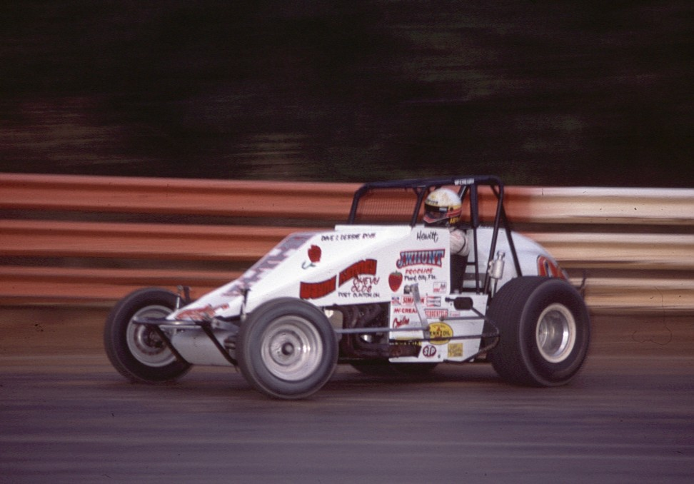 Jack Hewitt USAC racecar at Hagerstown, Maryland by Ted Van Pelt